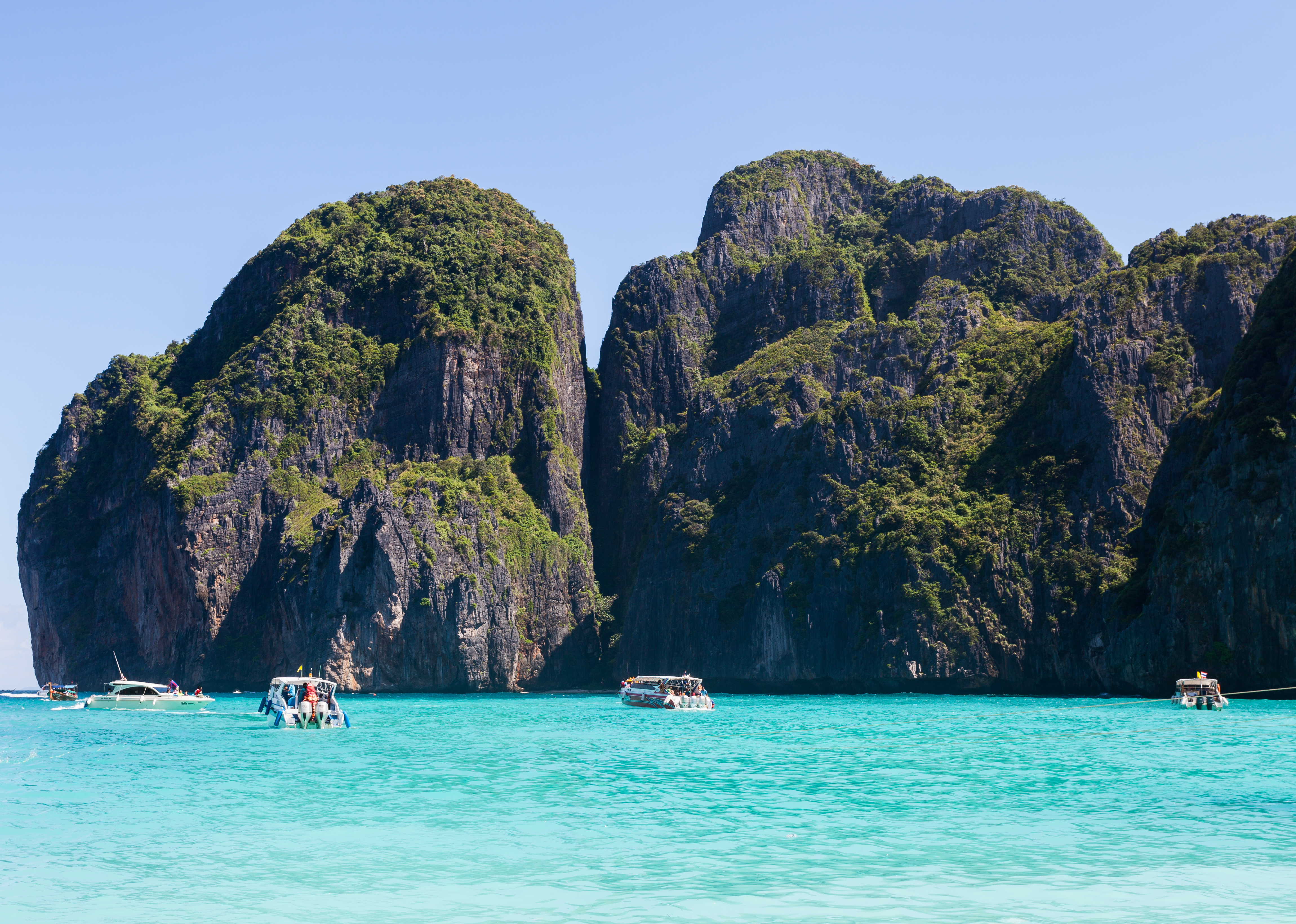 Maya Beach, Ko Phi Phi, Thailand